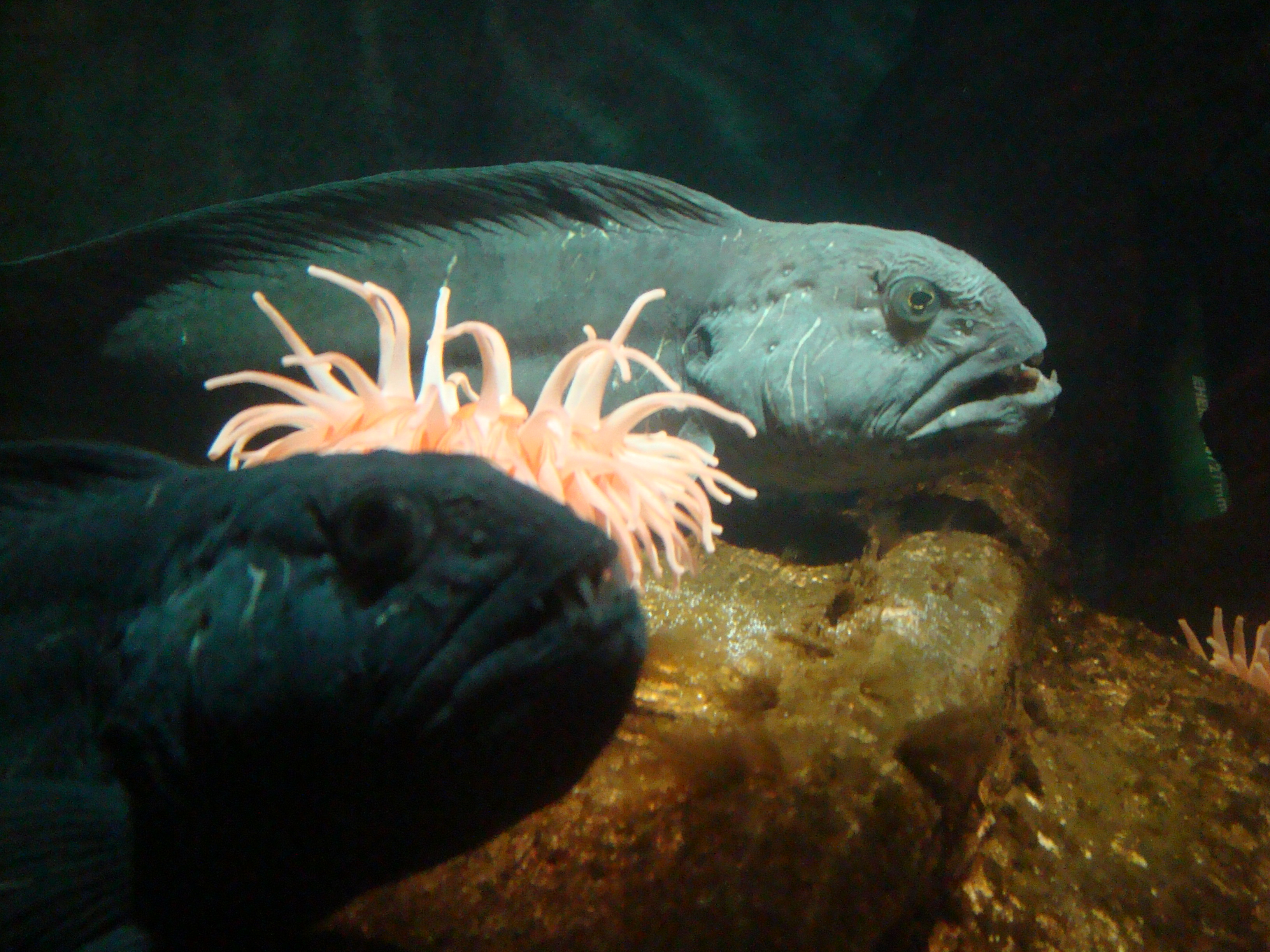 Requested by dive site, , to accompany their wolffish article. And by This picture is available to use for free, under the creative commons licence. All I ask is that I'm given a photo credit & a courtesy email to let me know how it's being used.